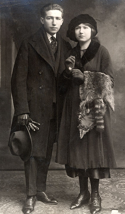 Jack Tworkov and is younger sister, Janice Biala in a photo taken ca. 1918. Every stitch of clothing they are wearing in this picture had been sewn by their father, a tailor.